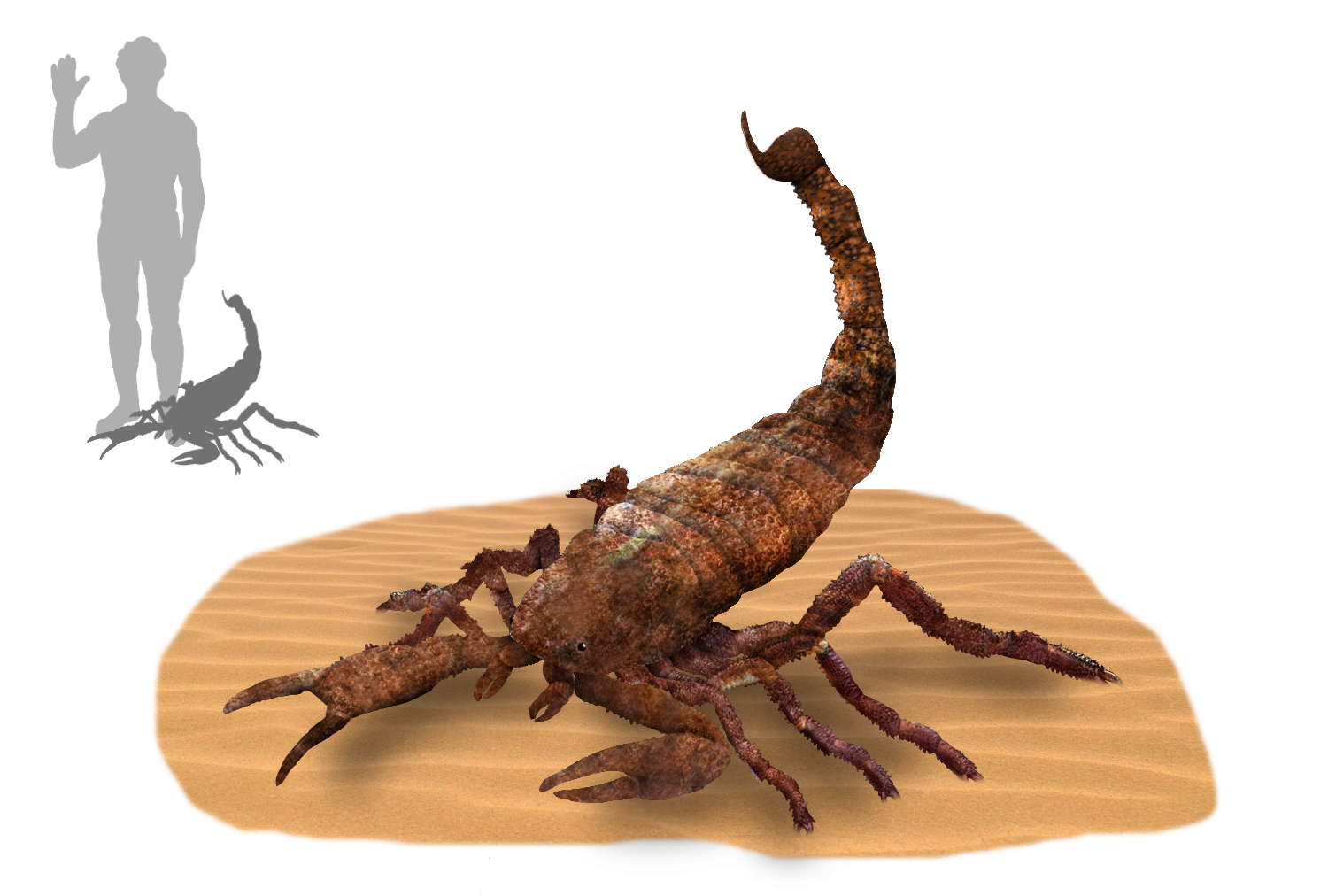 Artist's impression of a brontoscorpio.